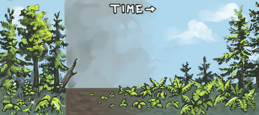 Illustration depicting ecological succession of a fern spike after a major disturbance, by Chantal Bussiere.